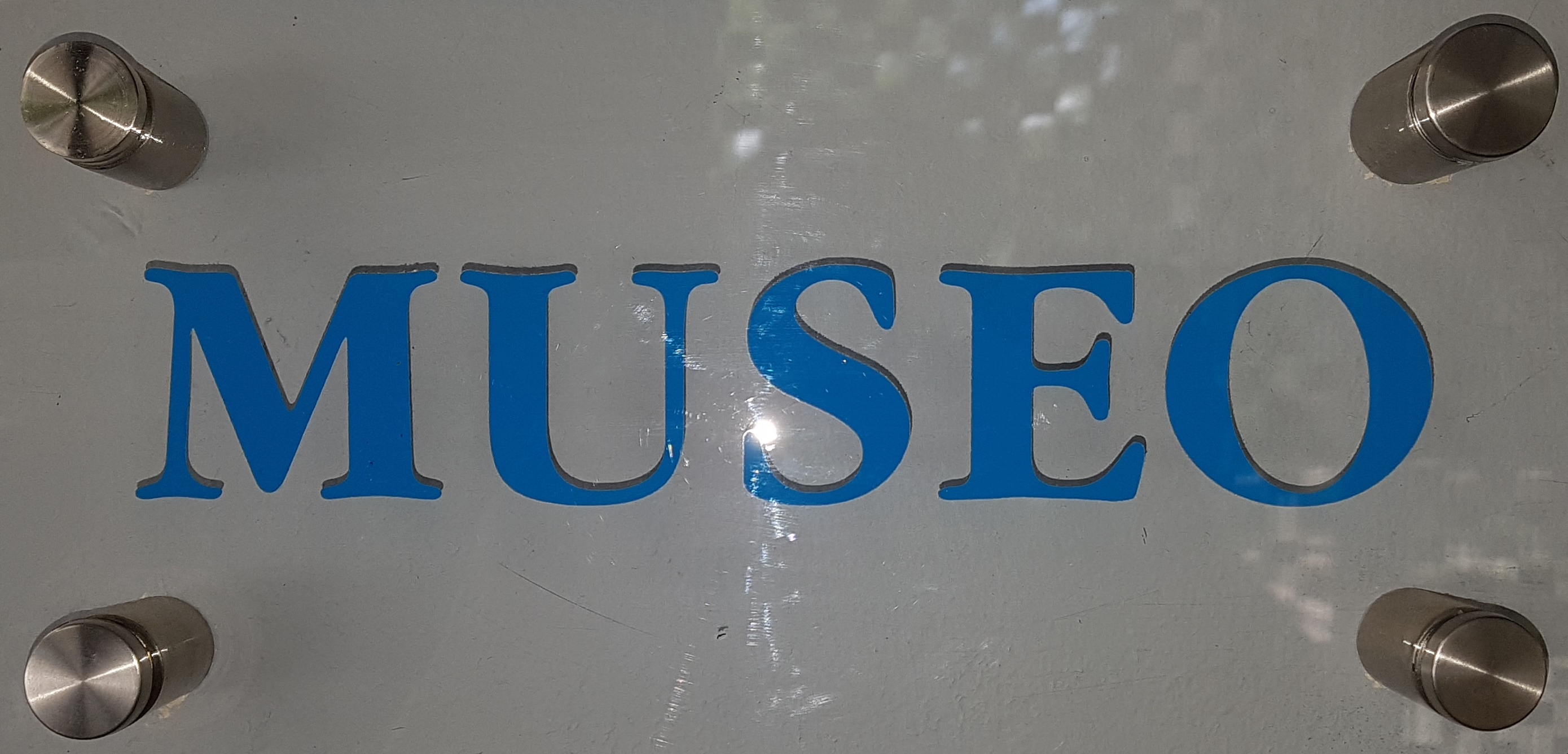 Placa en la entrada al Museo de Arqueología, Biblioteca Encarnación Valdés, PUCPR, Bo. Canas Urbano, Ponce, PR (20191217 130719B)